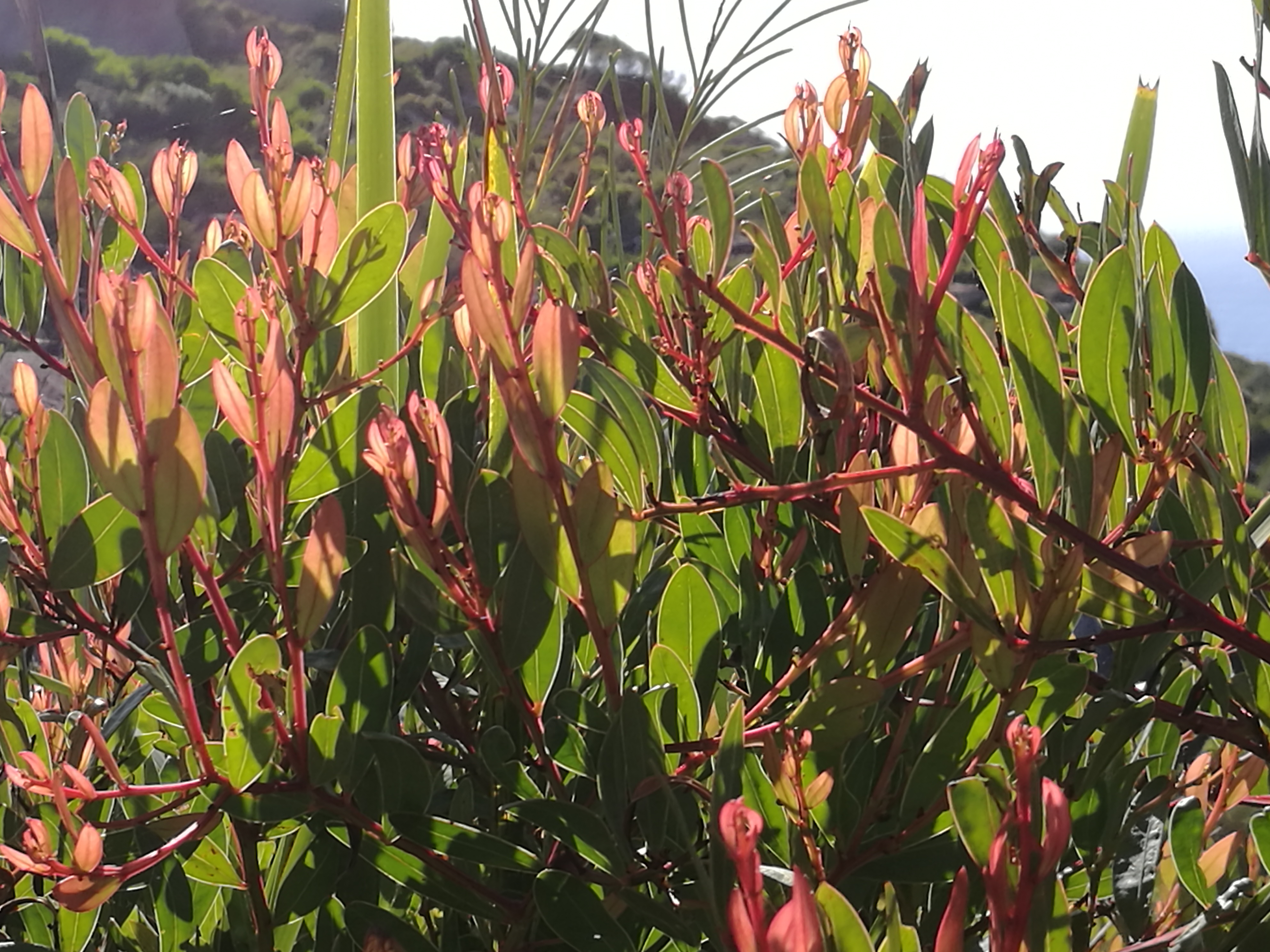 Acacia myrtifolia, Barrenjoey Lighthouse track, 7 January 2018